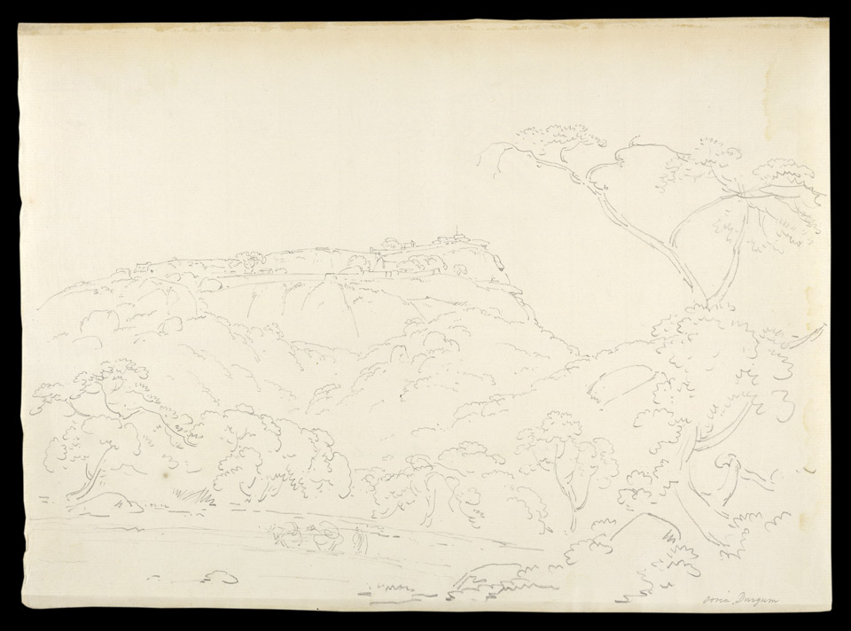 Artist: Daniell, William (1769-1837) Medium: Pencil on paper Date: 1792 Pencil drawing of Hudedurgam, Tamil Nadu by Thomas (1749-1840) and William (1769-1837) Daniell, 7 May 1792. Inscribed on the front in pencil is: 'Ooria Durgum'; on the back in ink: '75. Ooria droog Baramahl.' Hudedurgam was one of the hill forts which guarded the approach to Kelamangalam from the plains below the ghats. There are traces of several ancient buildings on the site, three large wells, the remains of a gateway and a wall. On the summit of the hill is a shrine to Hanuman. The fortress was garrisoned by Tipu Sultan (1753-1799) at the outset of the Third Mysore War but surrendered to a detachment of Lord Cornwallis’s advance guard in 1791. It was reoccupied by Tipu after the peace but again fell to the English troops under Lieutenant Colonel Oliver in 1799.